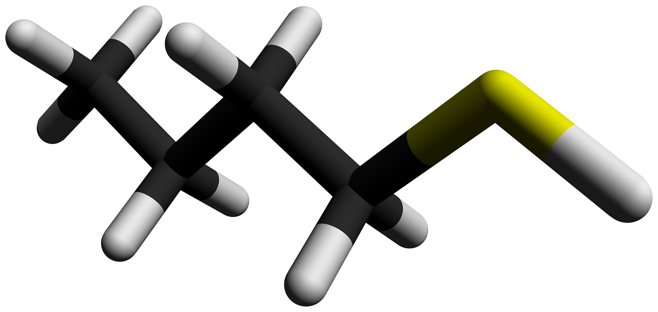 1-Butanethiol 3D stick model